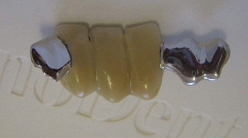 A rear view of a dental bridge, a so-called Maryland Bridge. The two wings for attaching to adjacent teeth are clearly visible. This prosthesis is to be placed in the lower central front position. Overall it measures 3.5cm wide